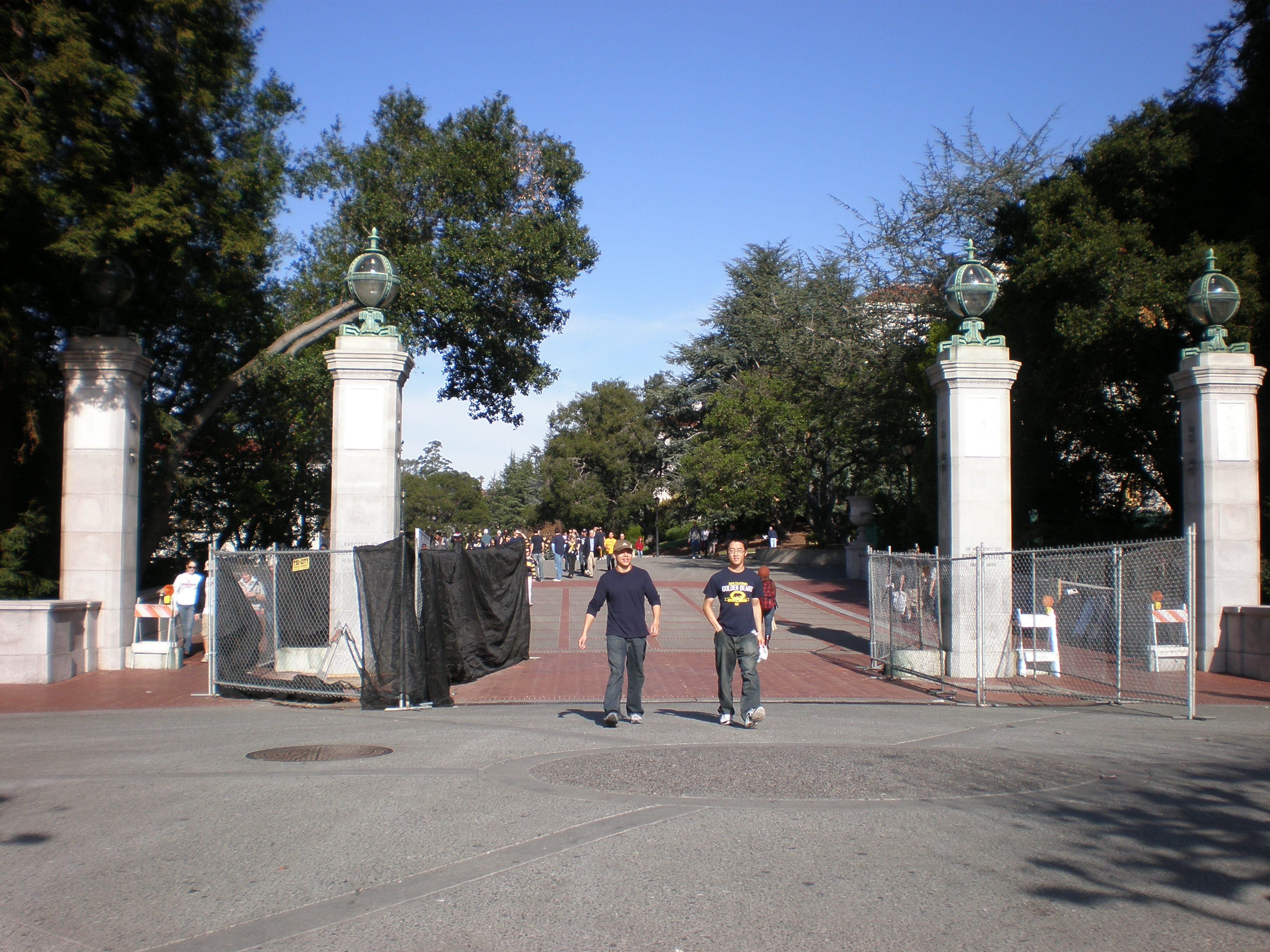 Sather Gate with its metalwork removed as part of a restoration project beginning in October 2008.